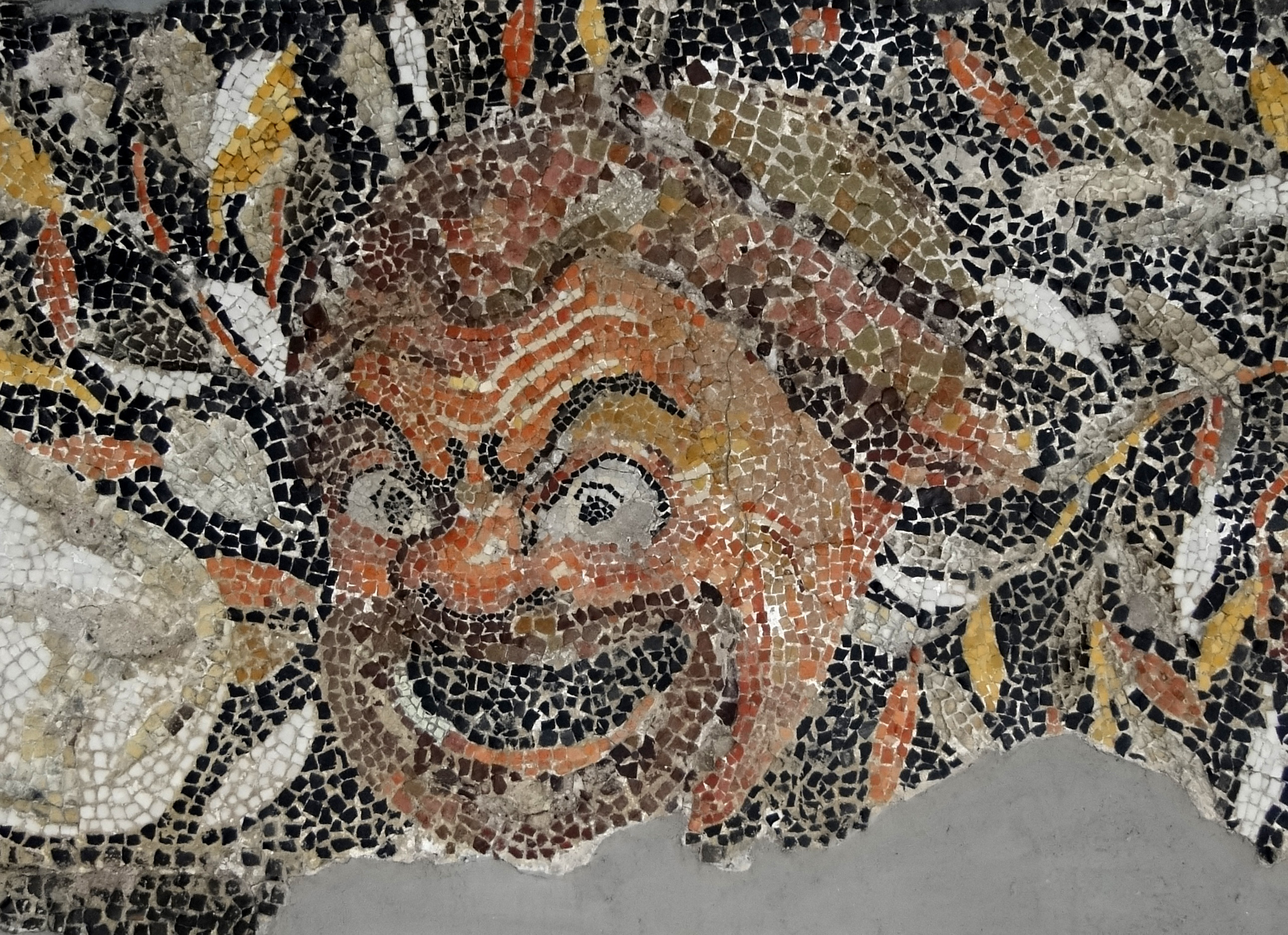 Mosaic of a mask on the border of the mosaic floor from the Insula of the Jewellery, Archaeological Museum of Delos, Greece